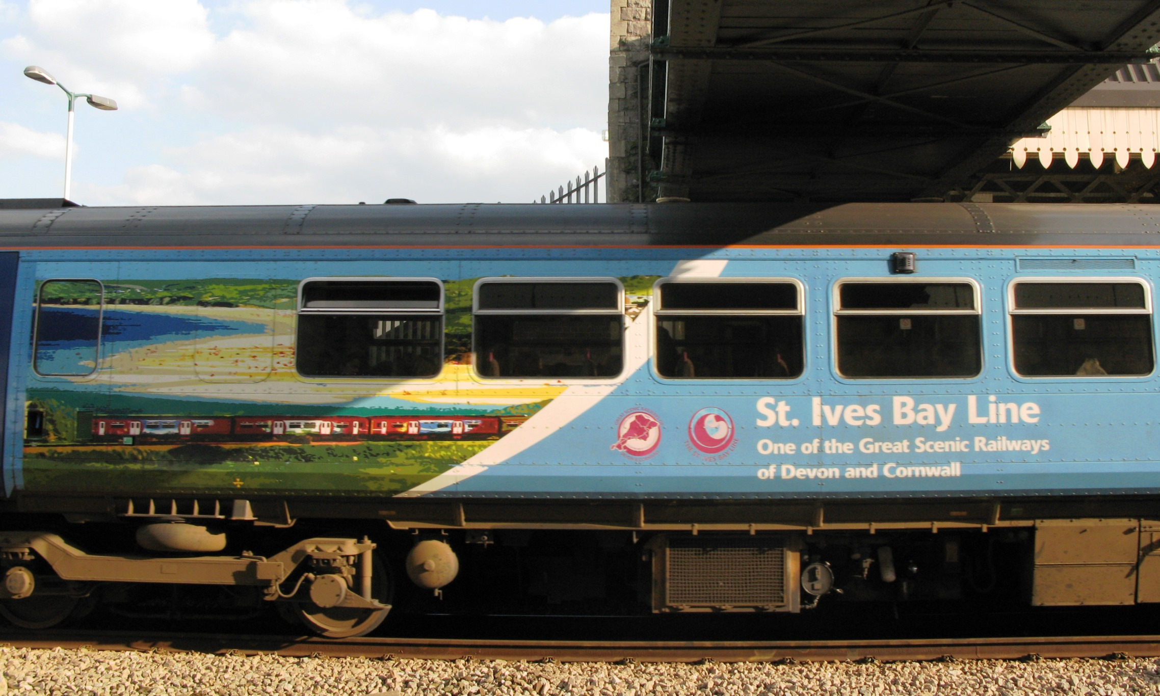 The special livery advertising the St Ives bay Line that was applied to Wessex Trains' 153329.